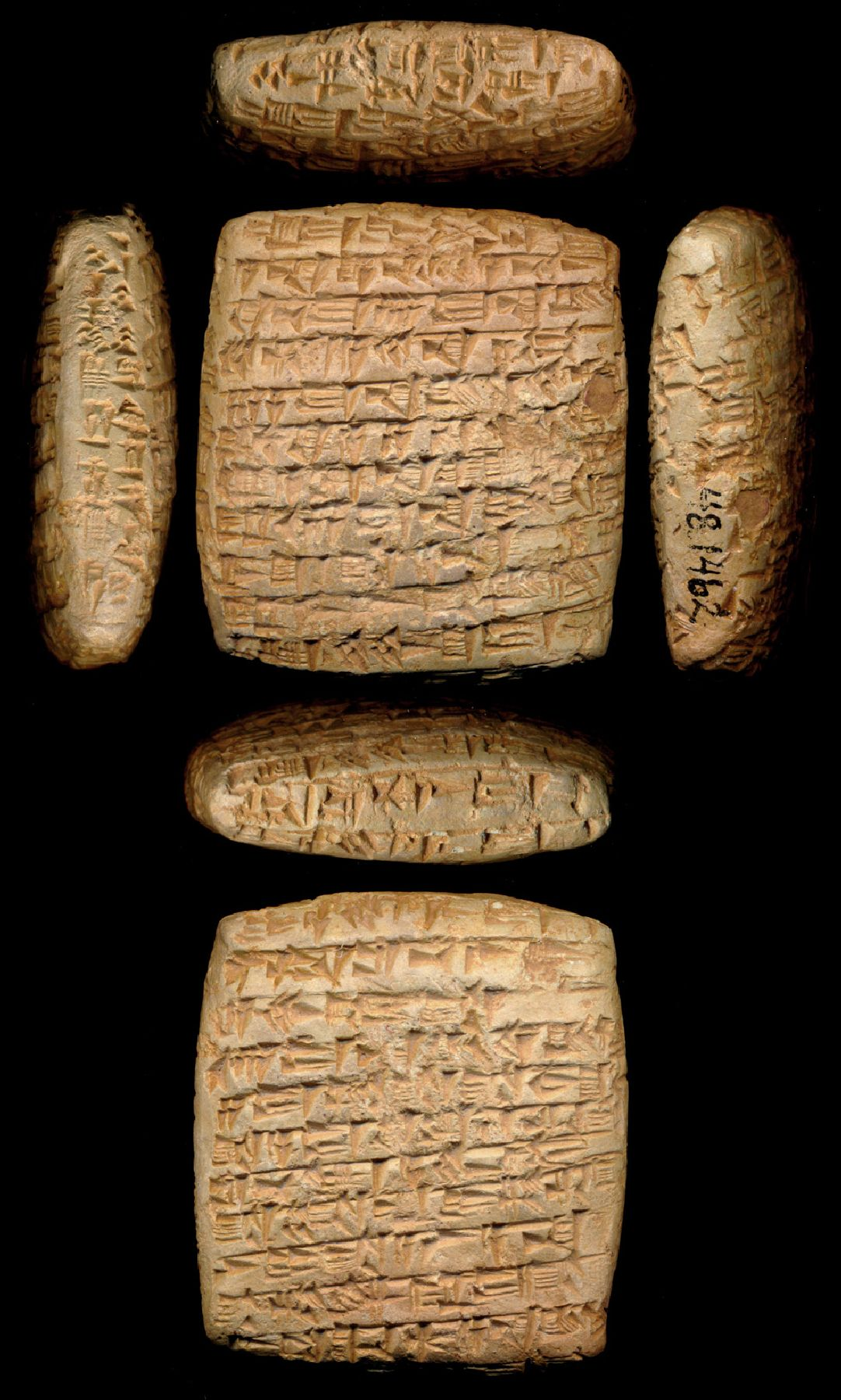 Around 20,000 clay tablets were found at the site of Kültepe (ancient Kanesh). Such a large find indicates that the city had an extensive commercial quarter, where foreign Assyrian merchants lived and operated during the 19th century BC. Sent from Itur-ili in Assyria to Ennam-Ashur in Kanesh, this letter concerns the important trade in precious metals. Itur-ili, the senior partner, offers wise words of advice to Ennam-Ashur: "This is important; no dishonest man must cheat you! So do not succumb to drink!"